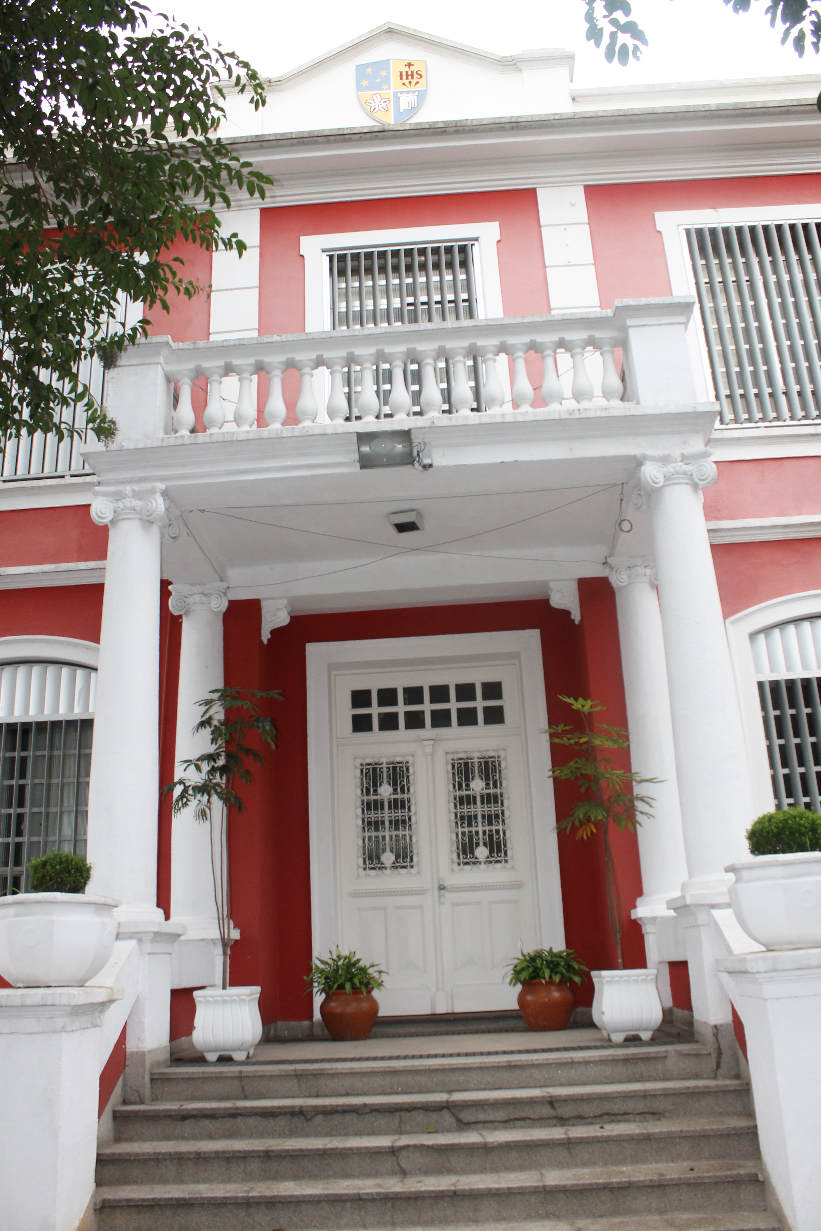 Porta central de entrada do Colégio São Francisco Xavier em São Paulo (SP), Brasil